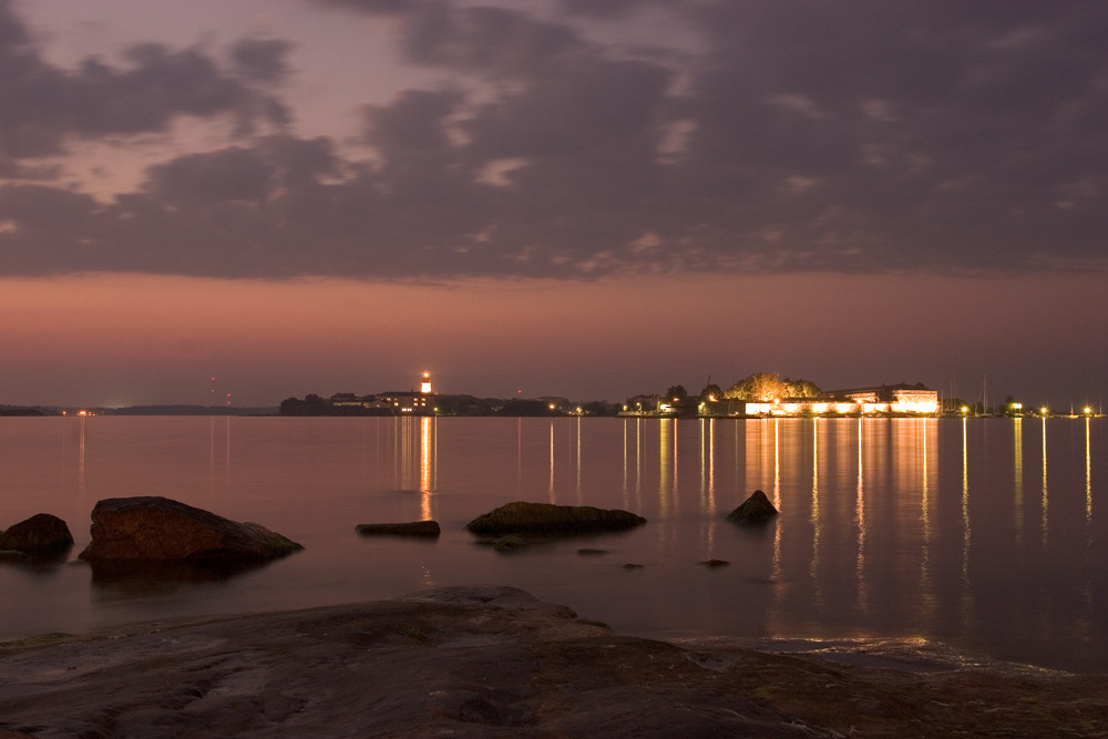 Finnish Naval Academy in an autumn morning in 2005. Photo by Thermos